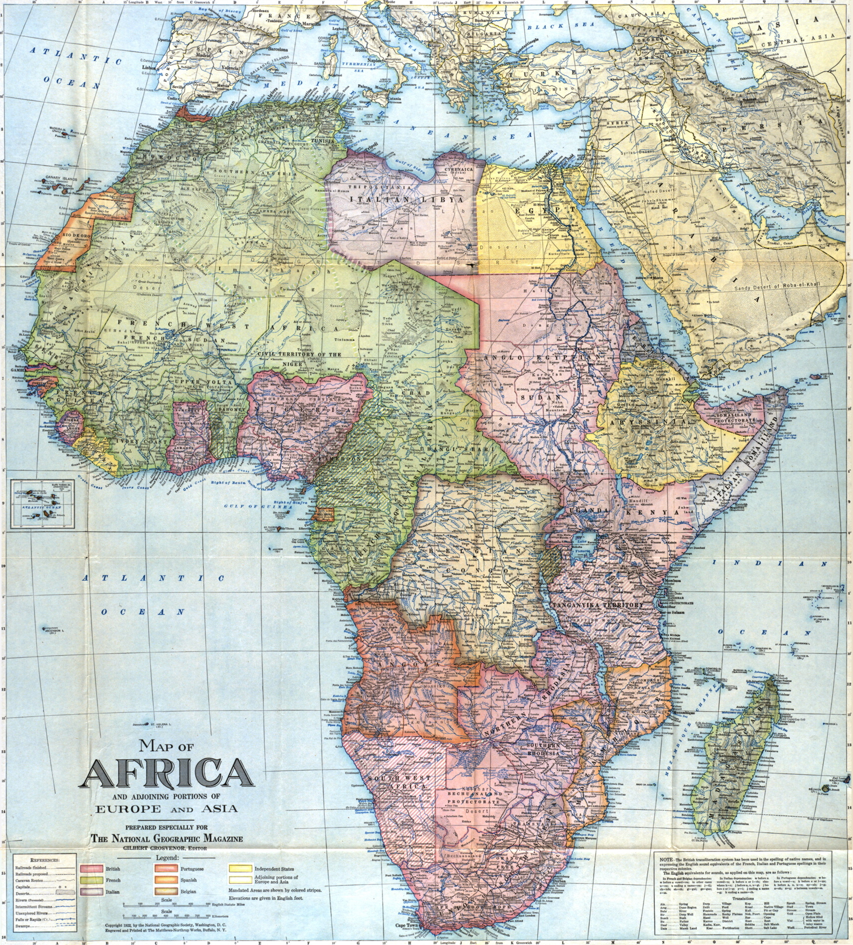 Map of Africa. Author: National Geographic Society (U.S.) Publisher: Engraved and printed at the Matthews-Northrup works Date: c1922. Location: Africa Scale: Scale ca. 1:11,500,000. 500 English statute miles to 6.7 cm. Call Number: G8200 1922.N38